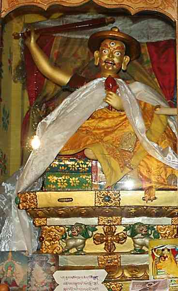 Statue of Dorje Shugden at Trode Khangsar.